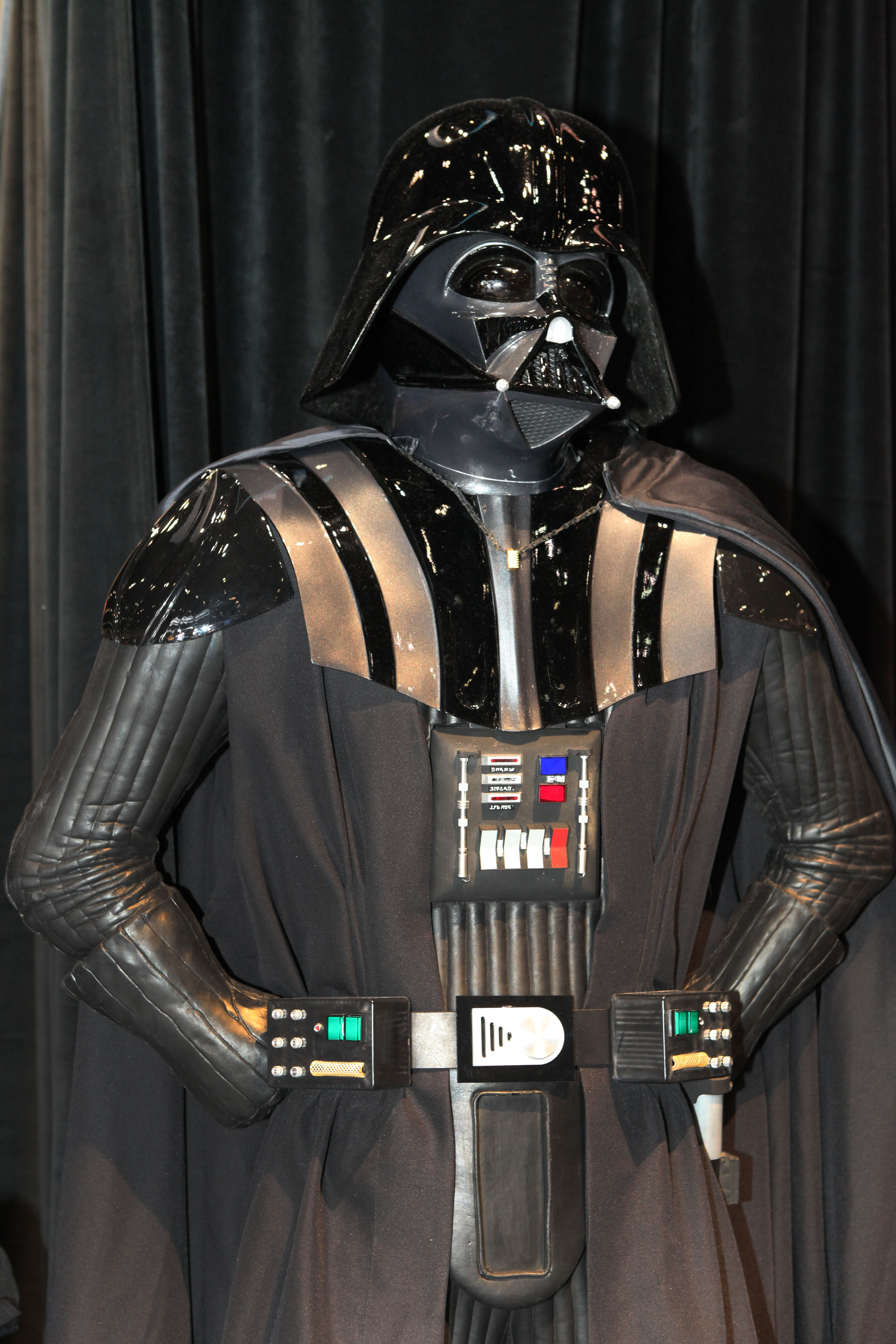 Cosplay of Darth Vader at Star Wars Celebration VI.